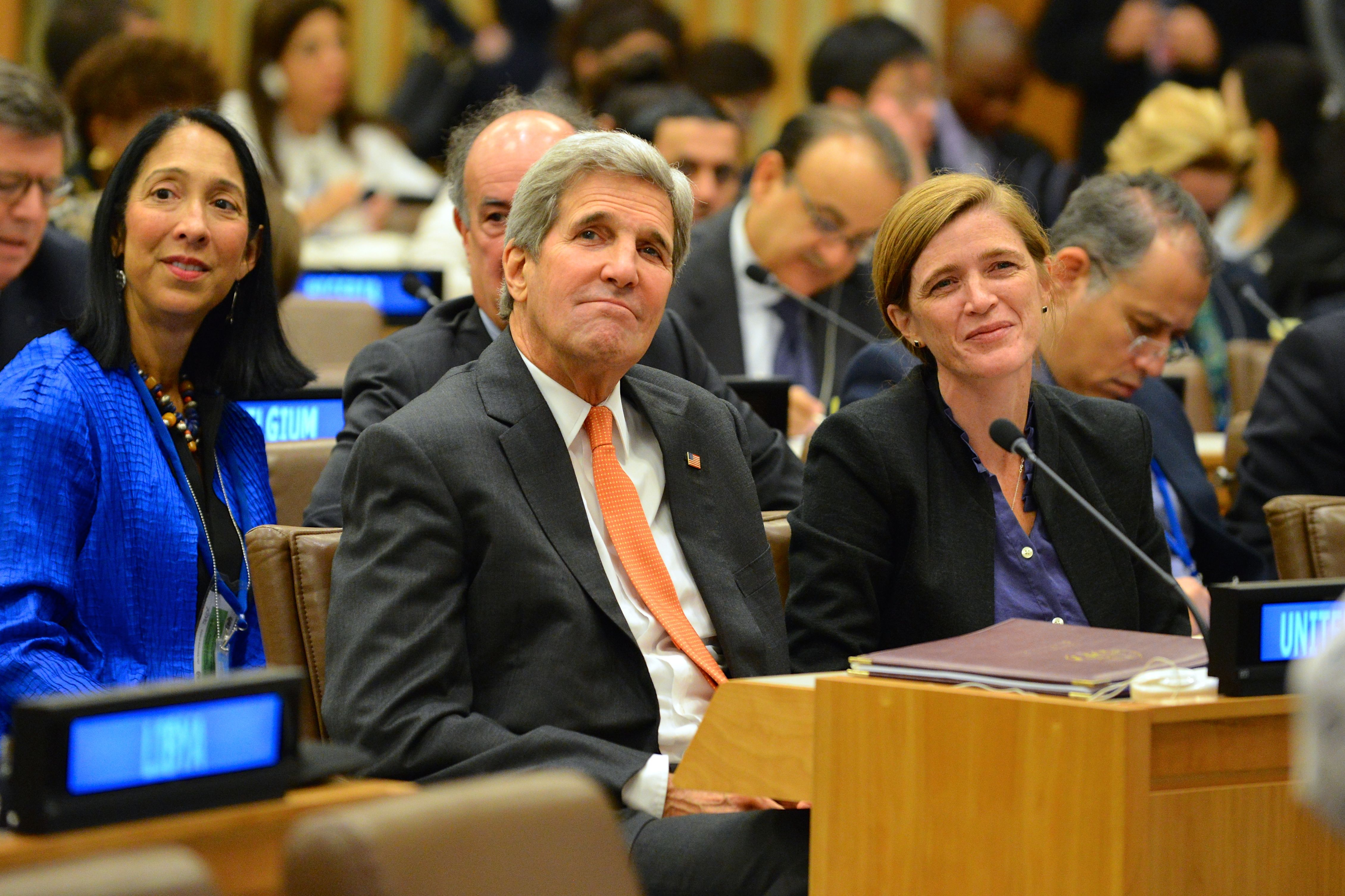 U.S. Secretary of State John Kerry and Ambassador Samantha Power, U.S. Permanent Representative to the United Nations, participate in the High-Level Ministerial on Libya at the United Nations in New York City on October 2, 2015. [State Department photo/ Public Domain]